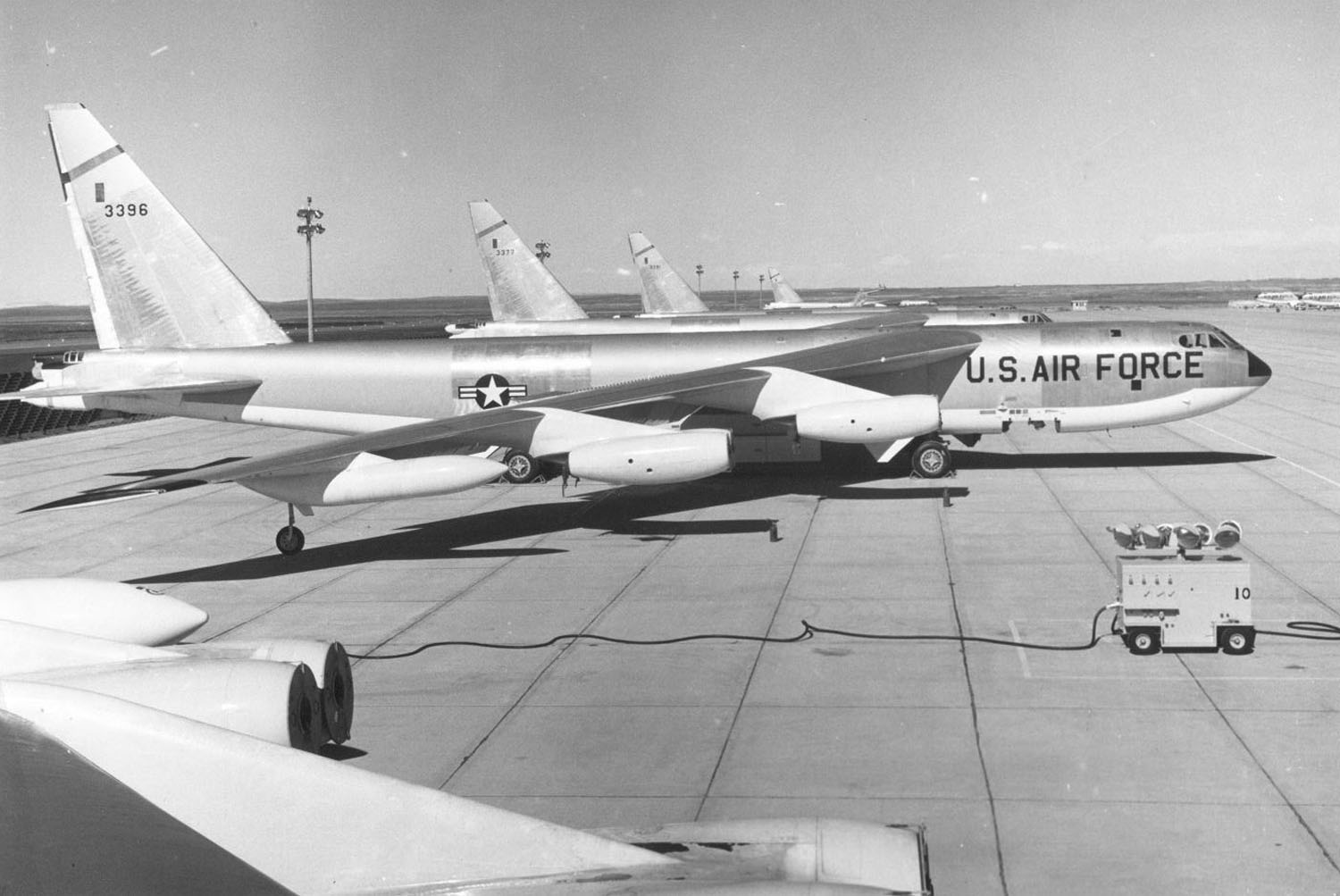 Boeing B-52Bs